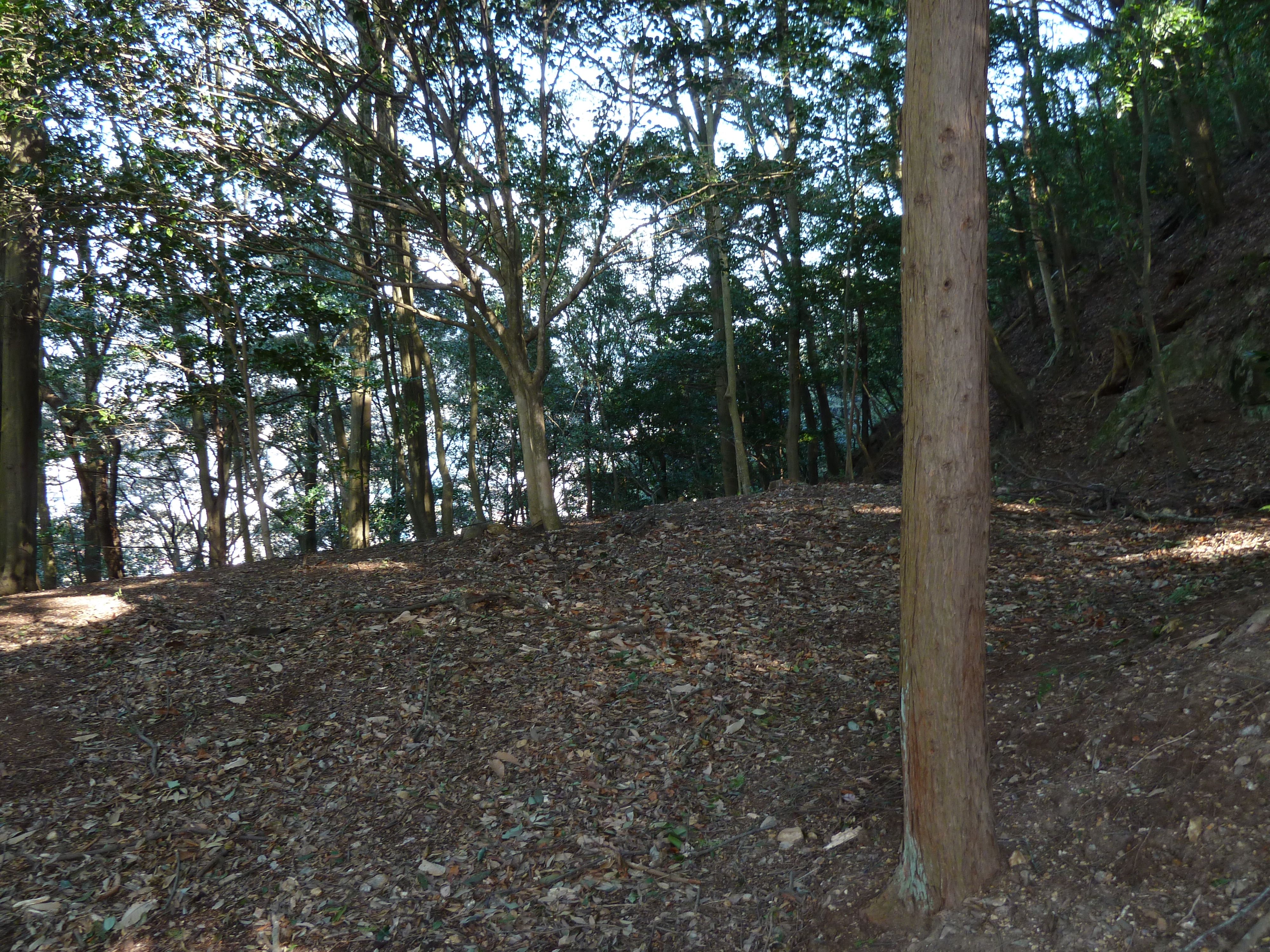 兼山城の北方見張櫓跡